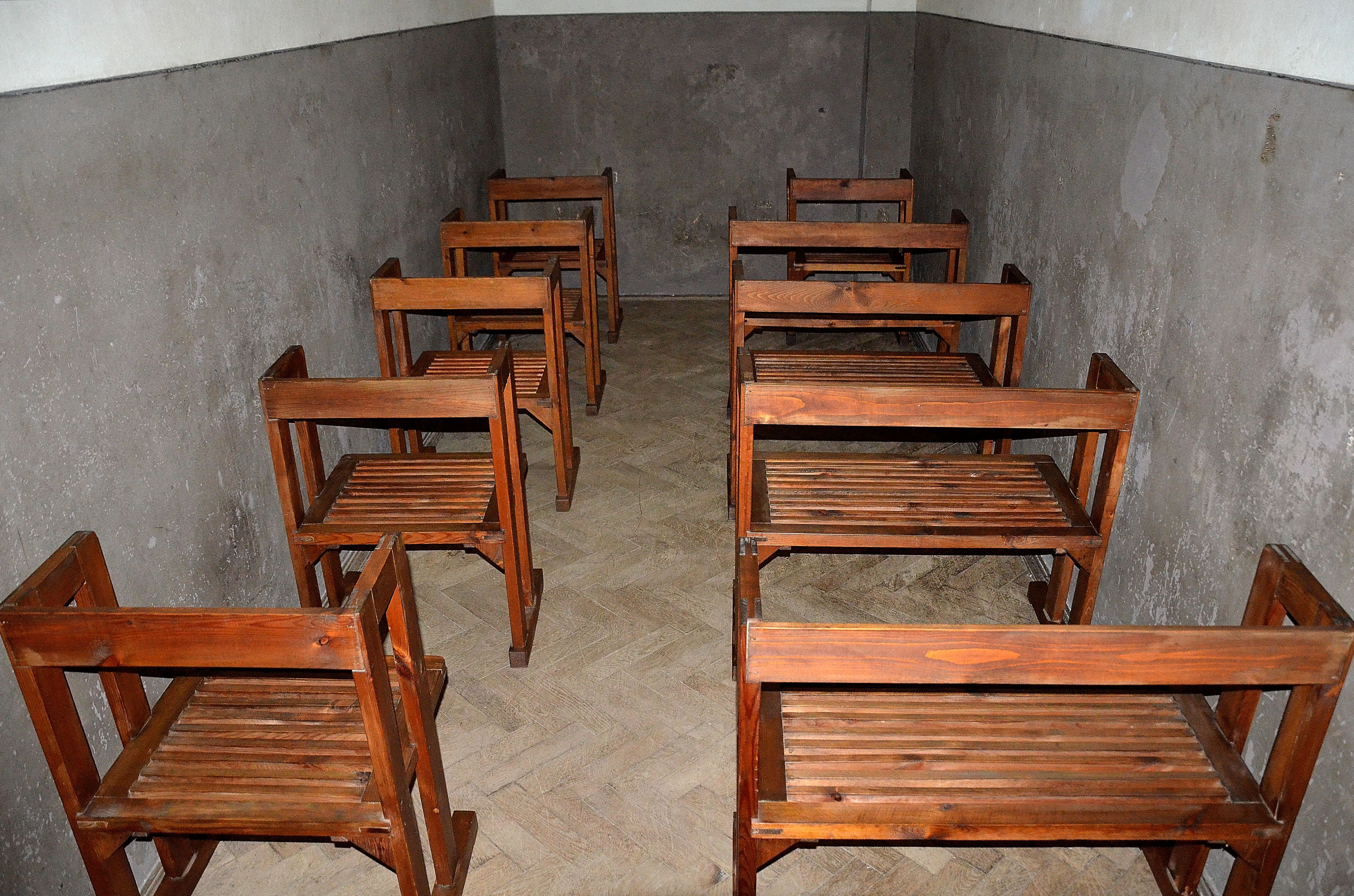 A collective cell ("tram") in the Mausoleum of Struggle and Martyrdom in Warsaw